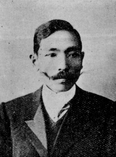 Mr. Yukijirō Shibasaki, director of the Nagasaki Higher Commercial School.